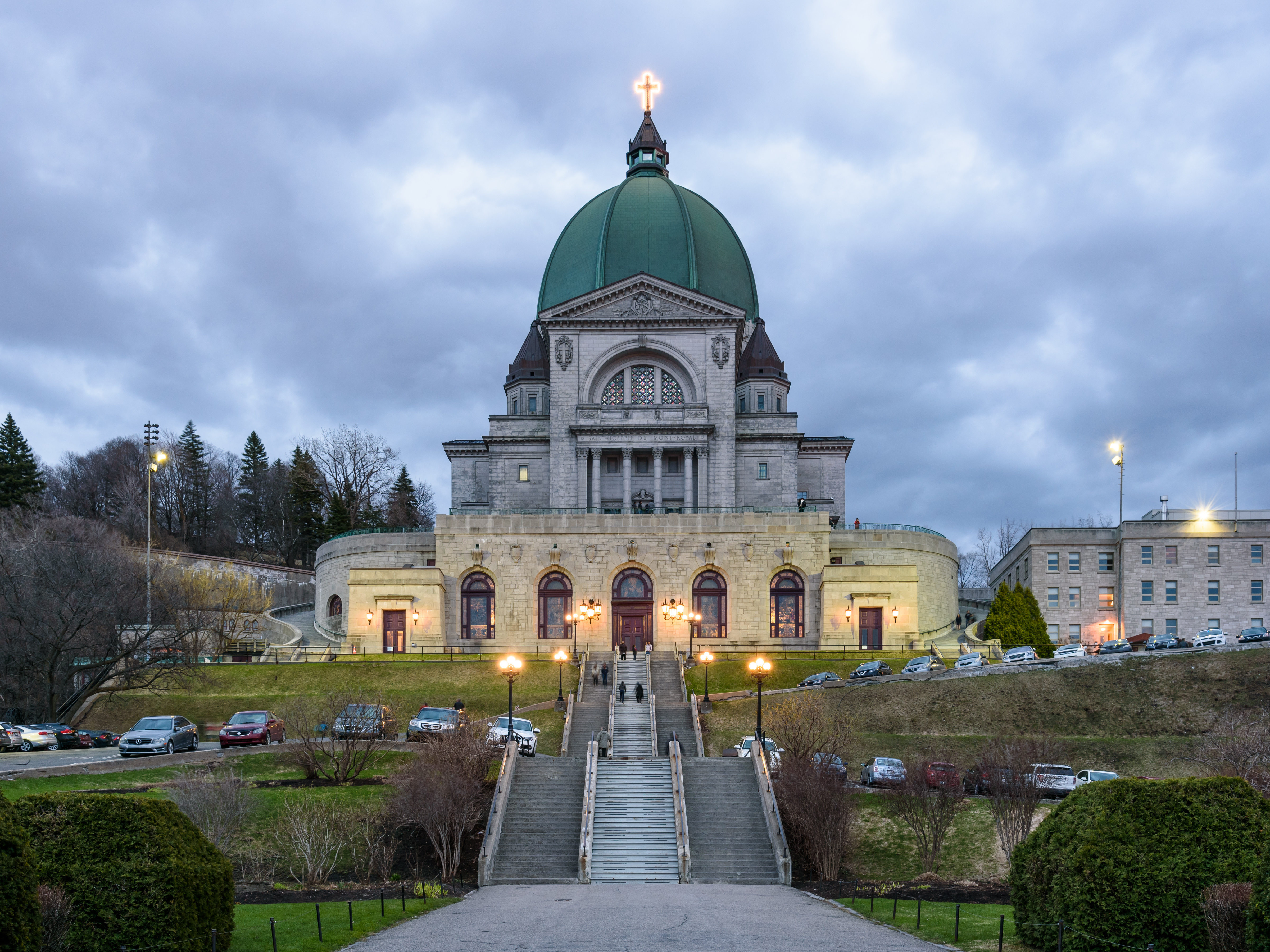 Saint Joseph's Oratory, Montréal.